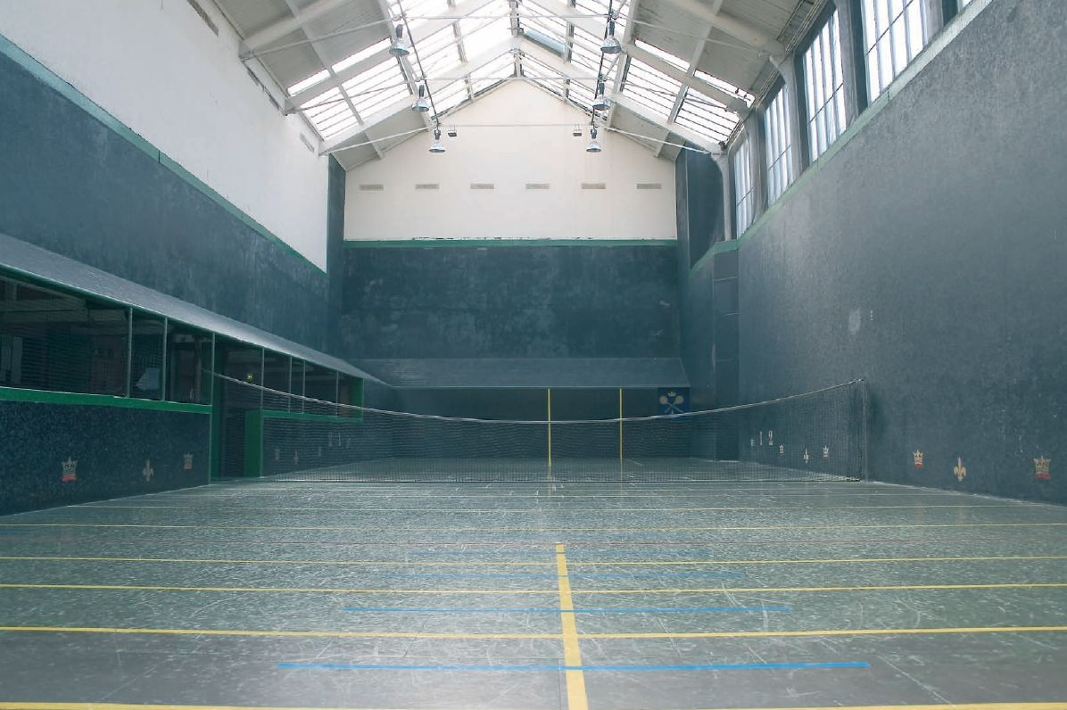 Manchester real tennis court in England.